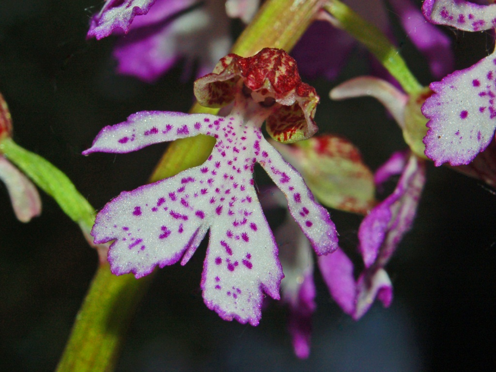 Orchis purpurea - Cerreto Ratti, Alessandria, Italy